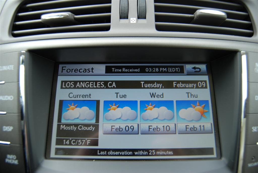 The 2010 Lexus IS 250 AWD - read the review at